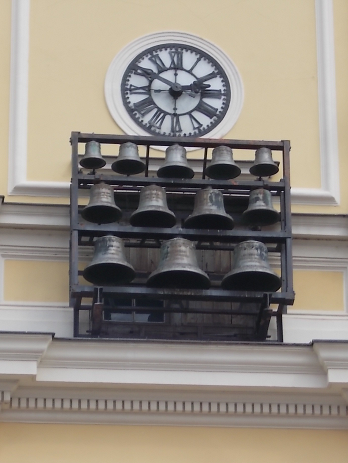 Chime (1928) over portal, Lutheran Great Church, Baroque origin, 1784-1786. Reconstructed in eclectic neo-baroque style between 1850-1860, 1885-1886 and 1936. Inside: altar and pulpit 18th century. - Luther Square, Nyíregyháza, Szabolcs-Szatmár-Bereg County, Hungary.